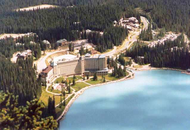 Lake Louise - Banff National Park, Alberta, Canada